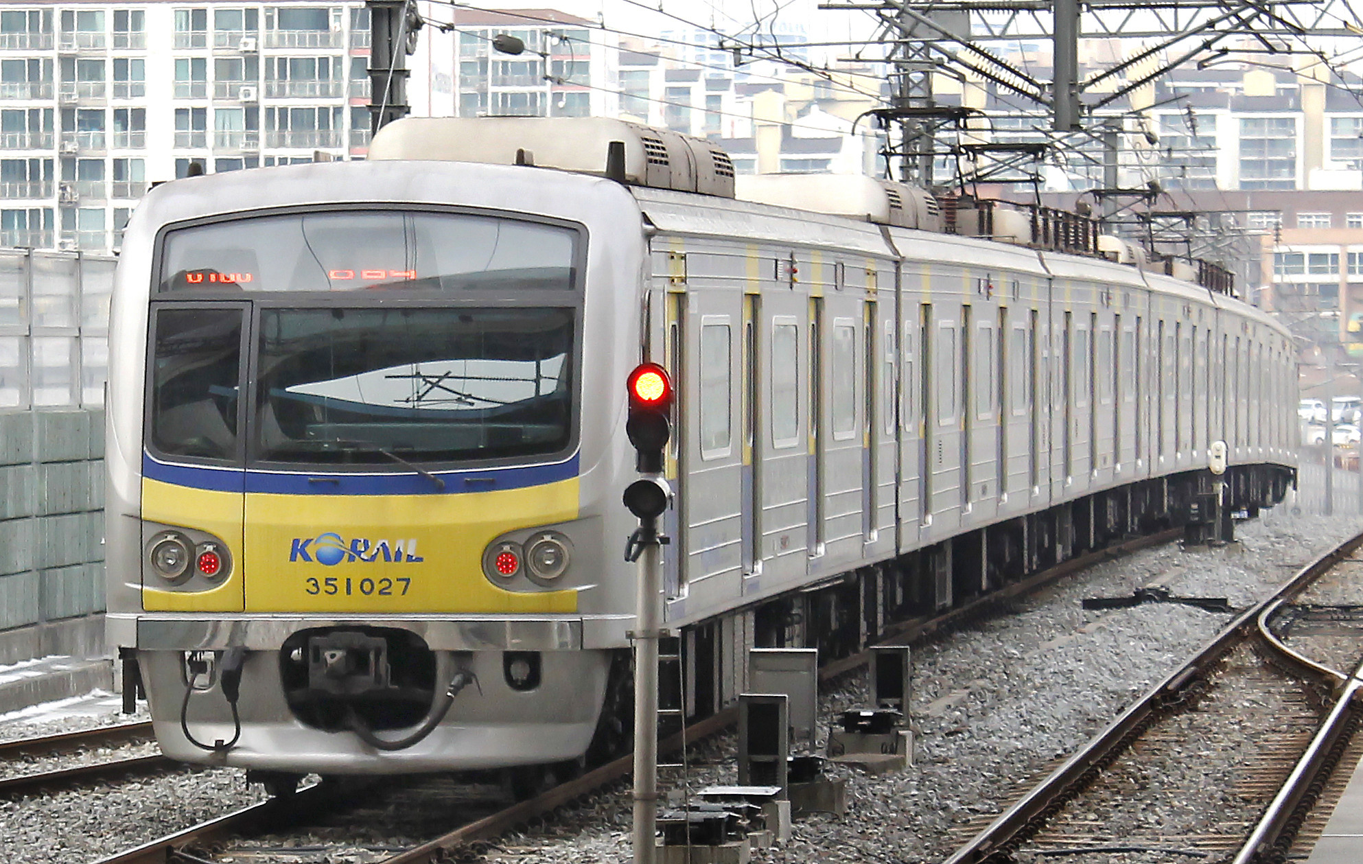 Korail Class 351000(2nd batch) EMU leaving Jukjeon Station.